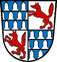 Coat of arms of Treuchtlingen